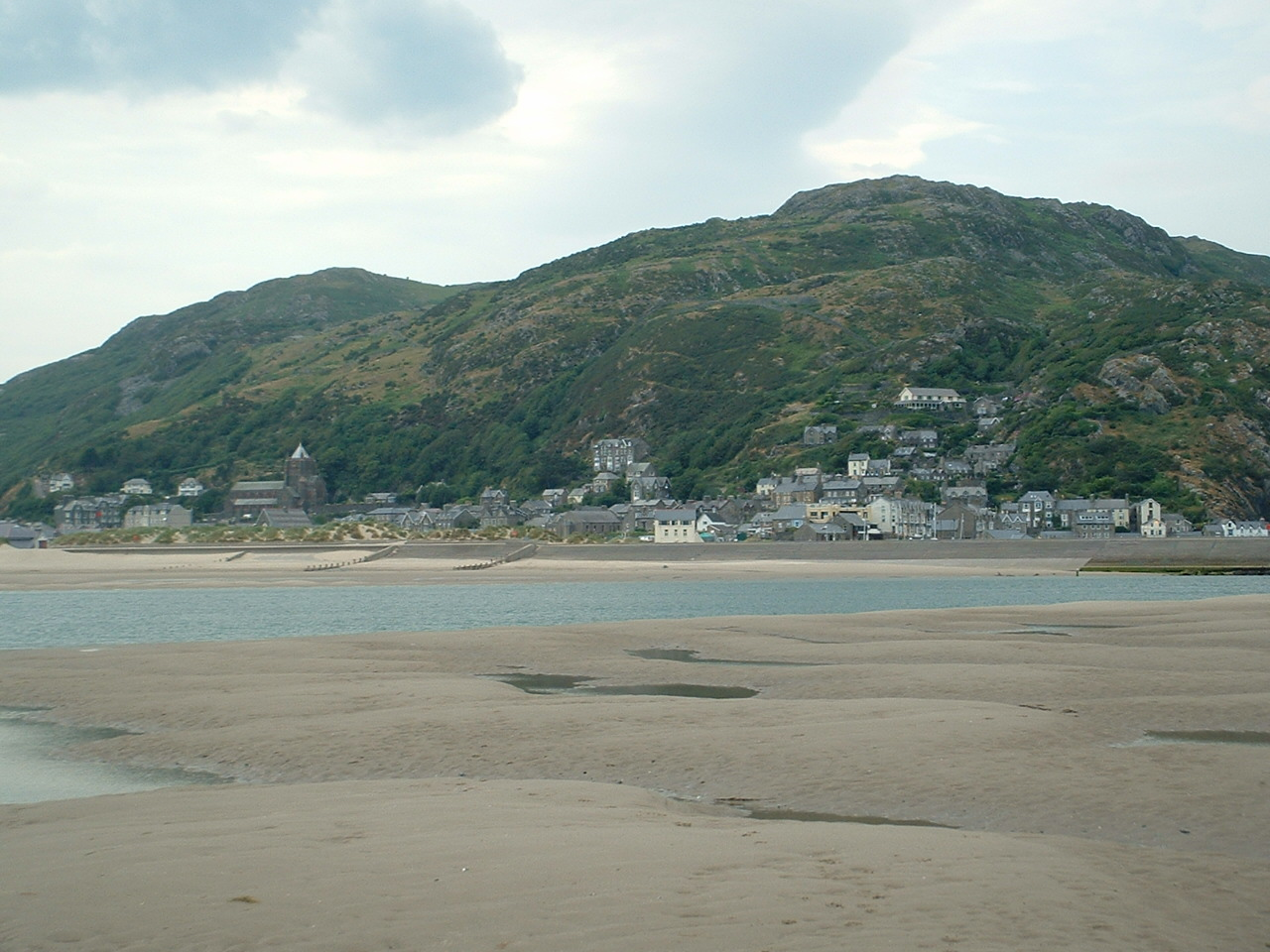 Barmouth across the River Mawddach estuary, Gwynedd, Wales. Taken by Necrothesp, 28 June 2005.